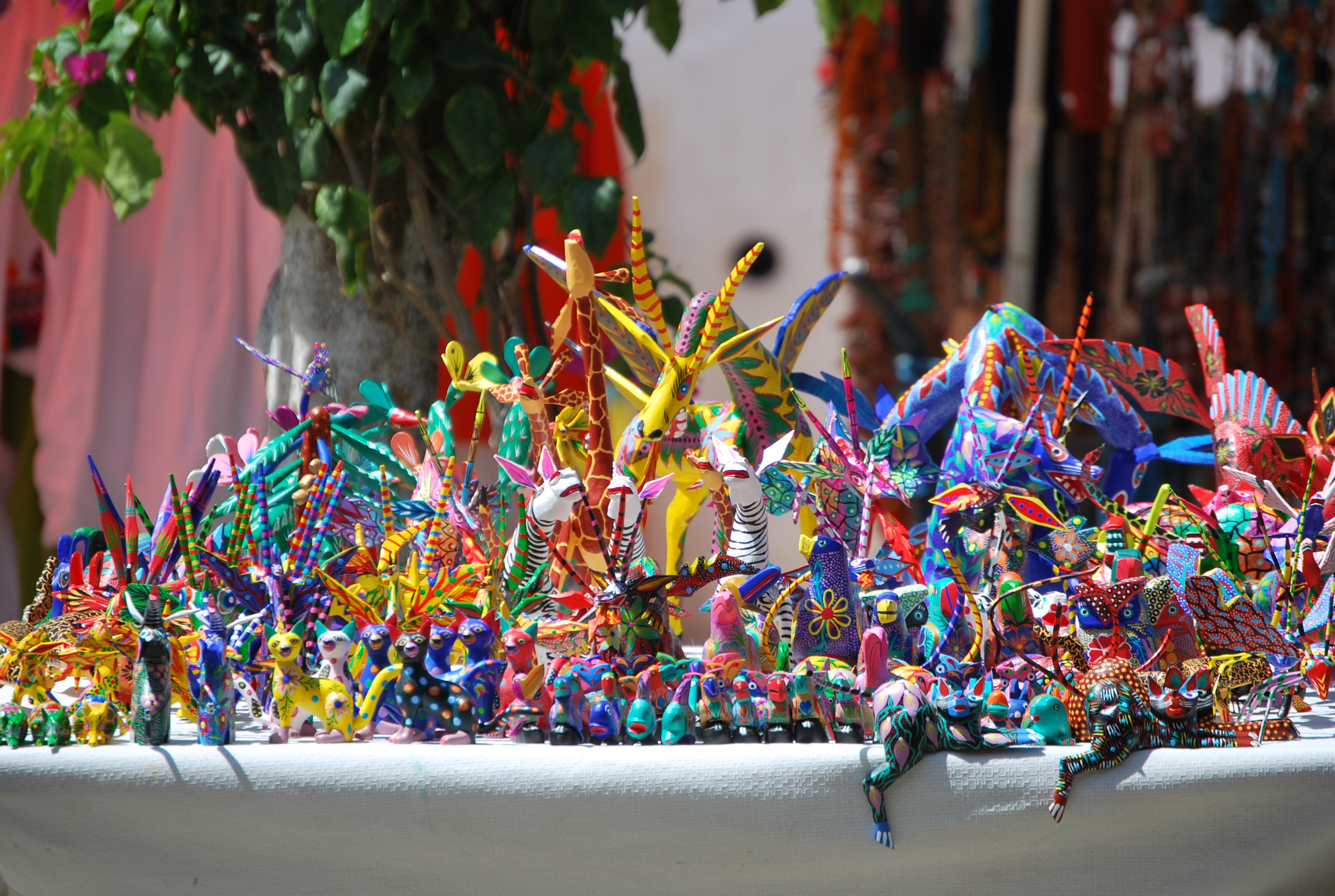 Alebriges of Oaxaca